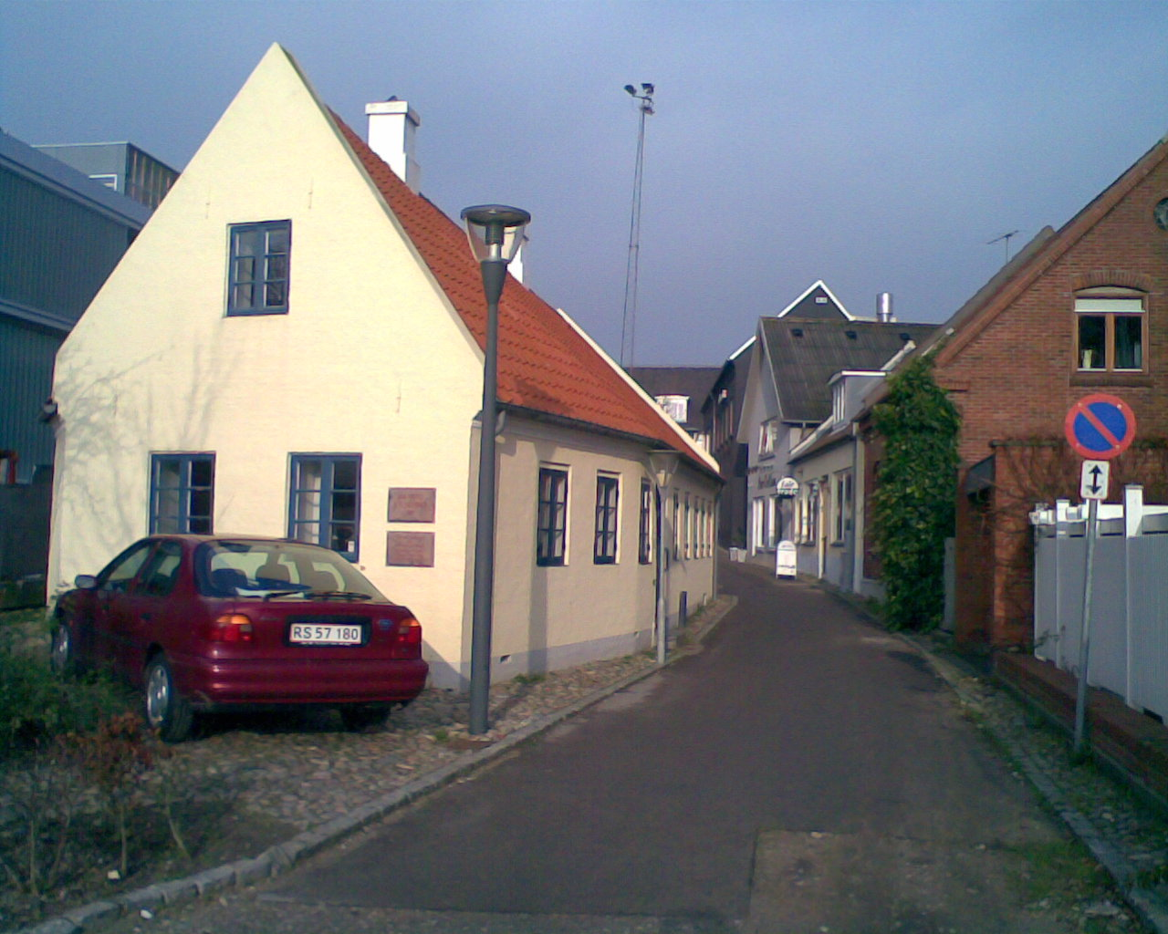 Birthplace of the danish writer I. P. Jacobsen, Thisted, Denmark